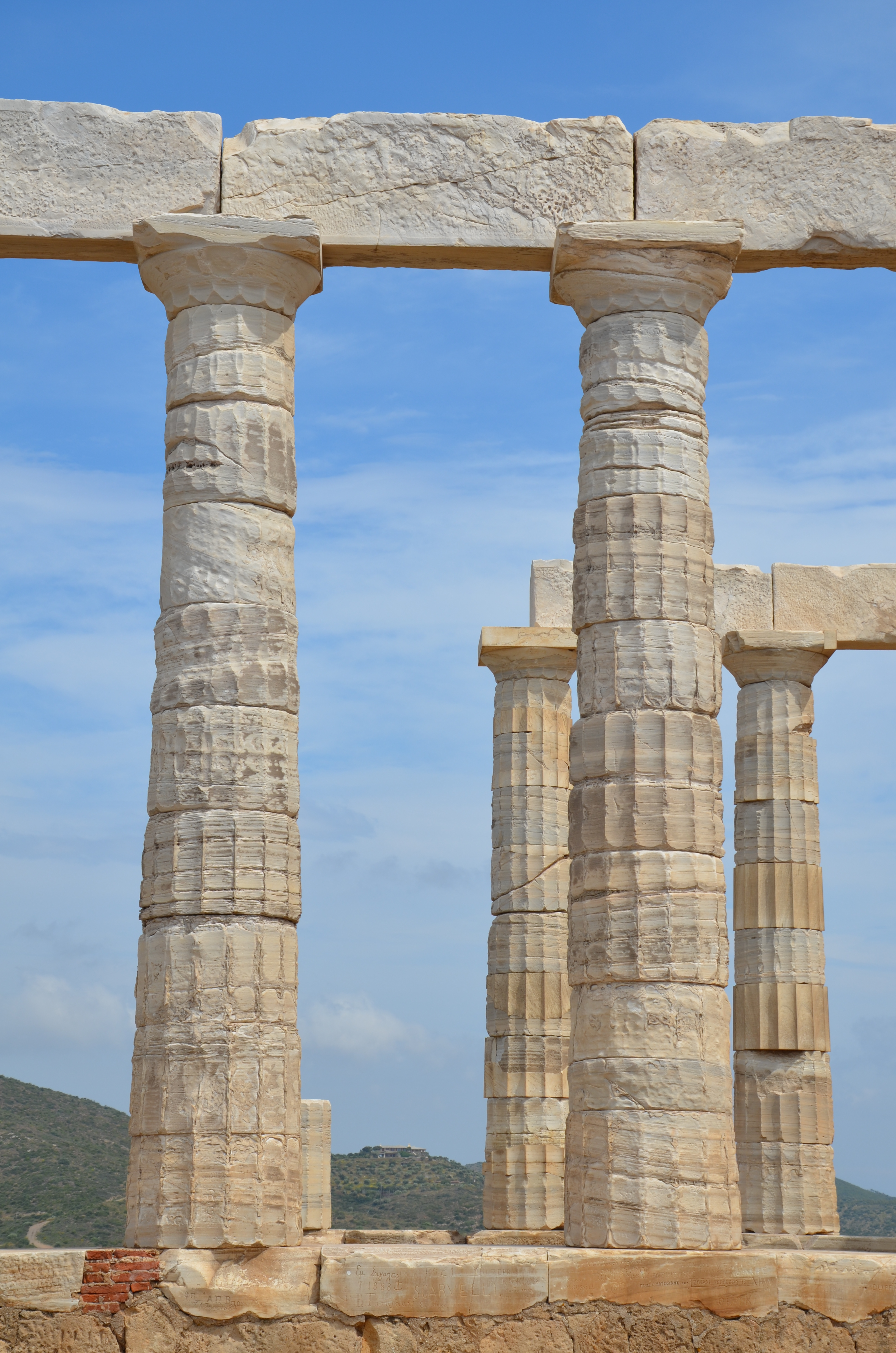 Temple of Poseidon, Cape Sounion, Greece